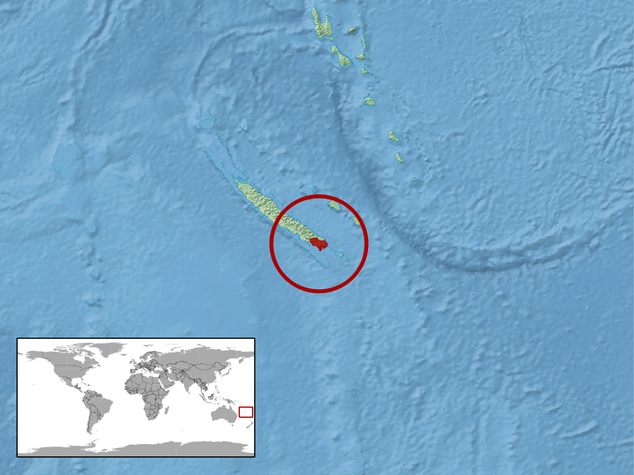 geographic distribution of Simiscincus aurantiacus